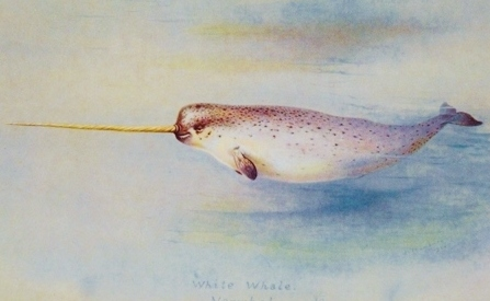 "White Whale, Narwhal" illustration from "British Mammals" by A. Thorburn, 1920